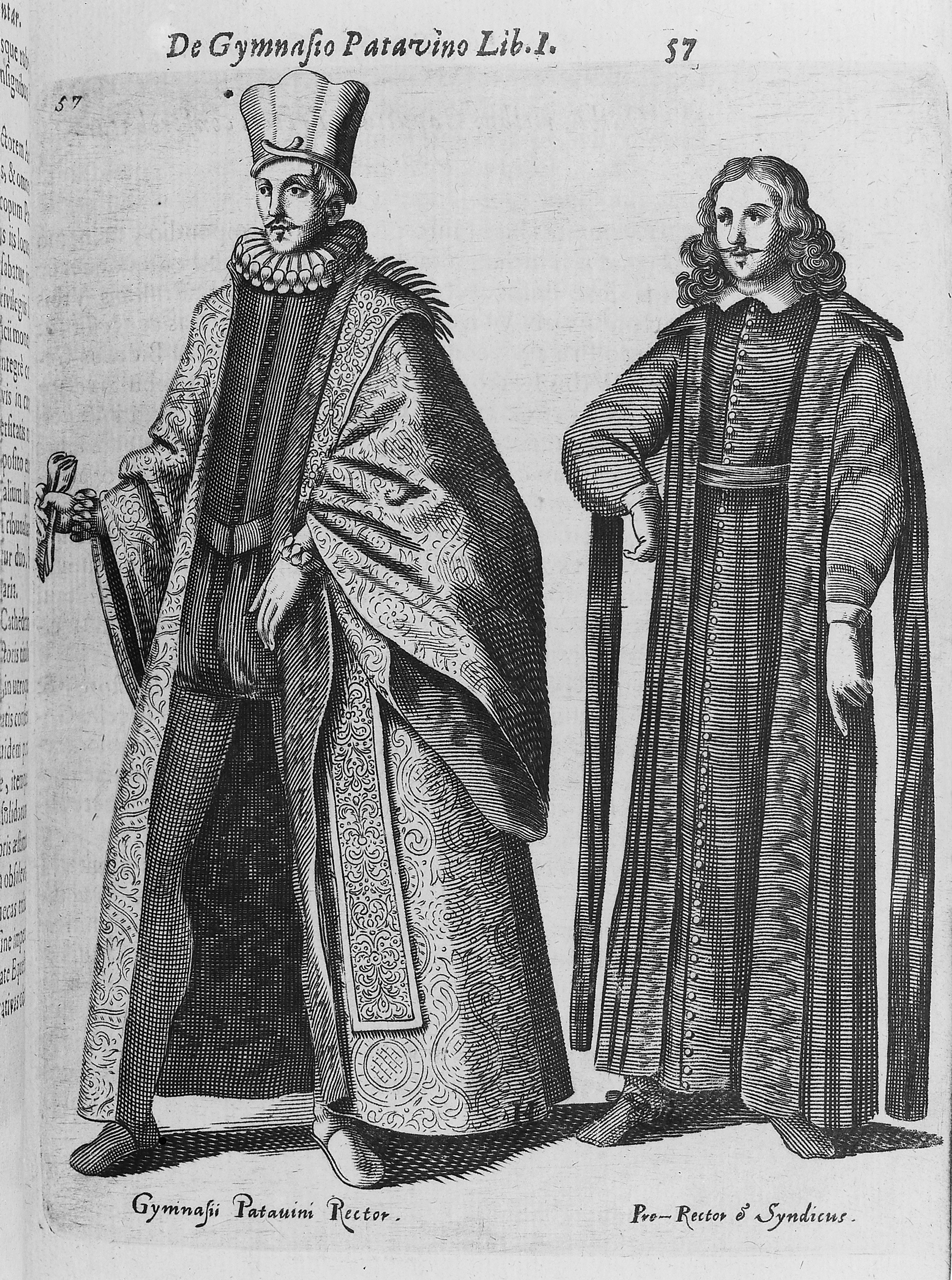 Rector and Pro-Rector of University of Padua. Wellcome Images Keywords: Religion; Costume; Christianity